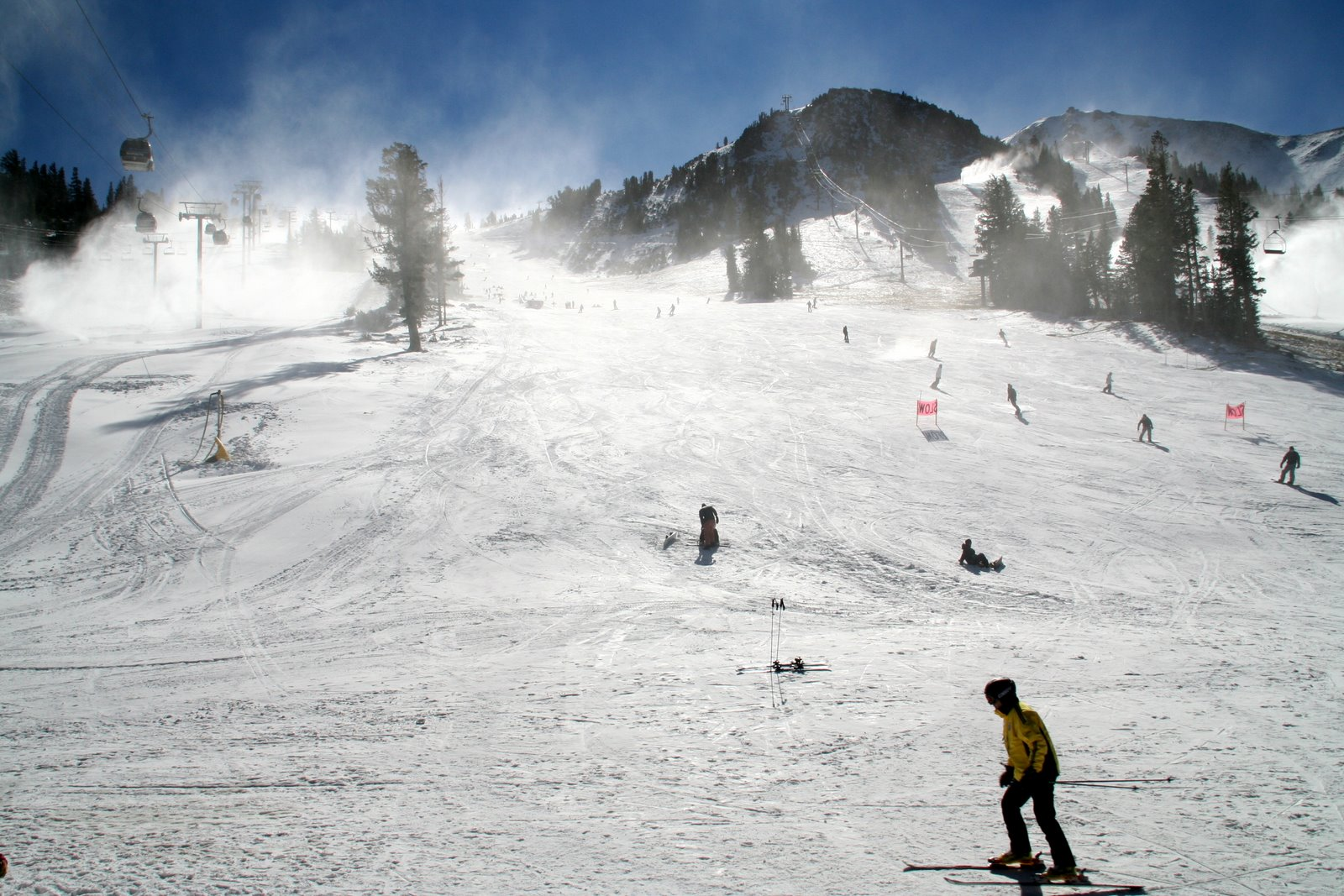 Mammoth Mountain Ski Area